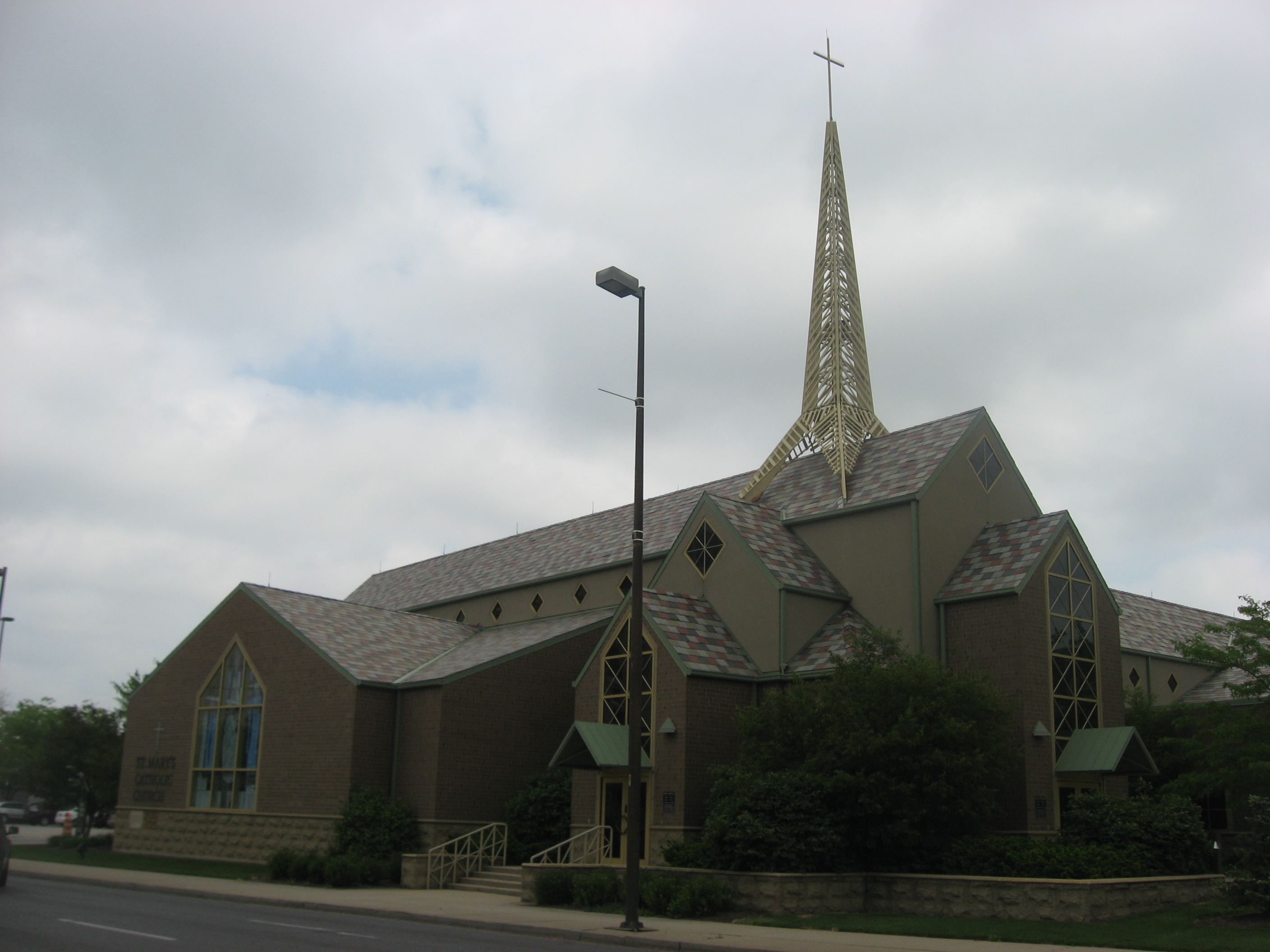 Front of St. Mary's Catholic Church, located at 1101 S. Lafayette Street (U.S. Route 27) in Fort Wayne, Indiana, United States. Built in 1998, it sits on the site of two former St. Mary's Churches, which were built in 1886 and 1858. The later of the two previous buildings was listed on the National Register of Historic Places in 1984 but removed after a lightning-sparked fire destroyed it in 1993.